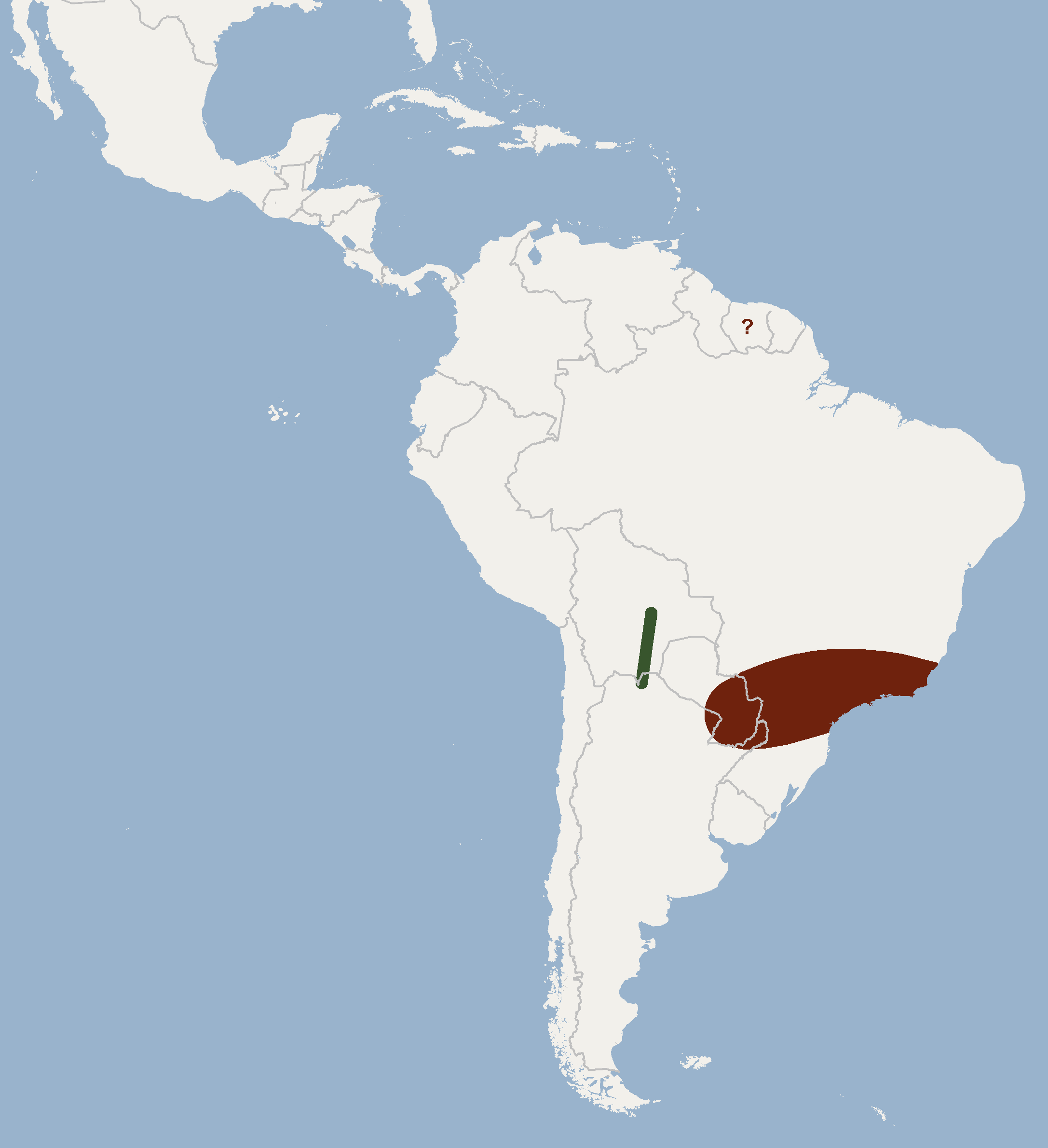 Geographical distribution of Pygoderma bilabiatum according to Webster & Owen, 1984